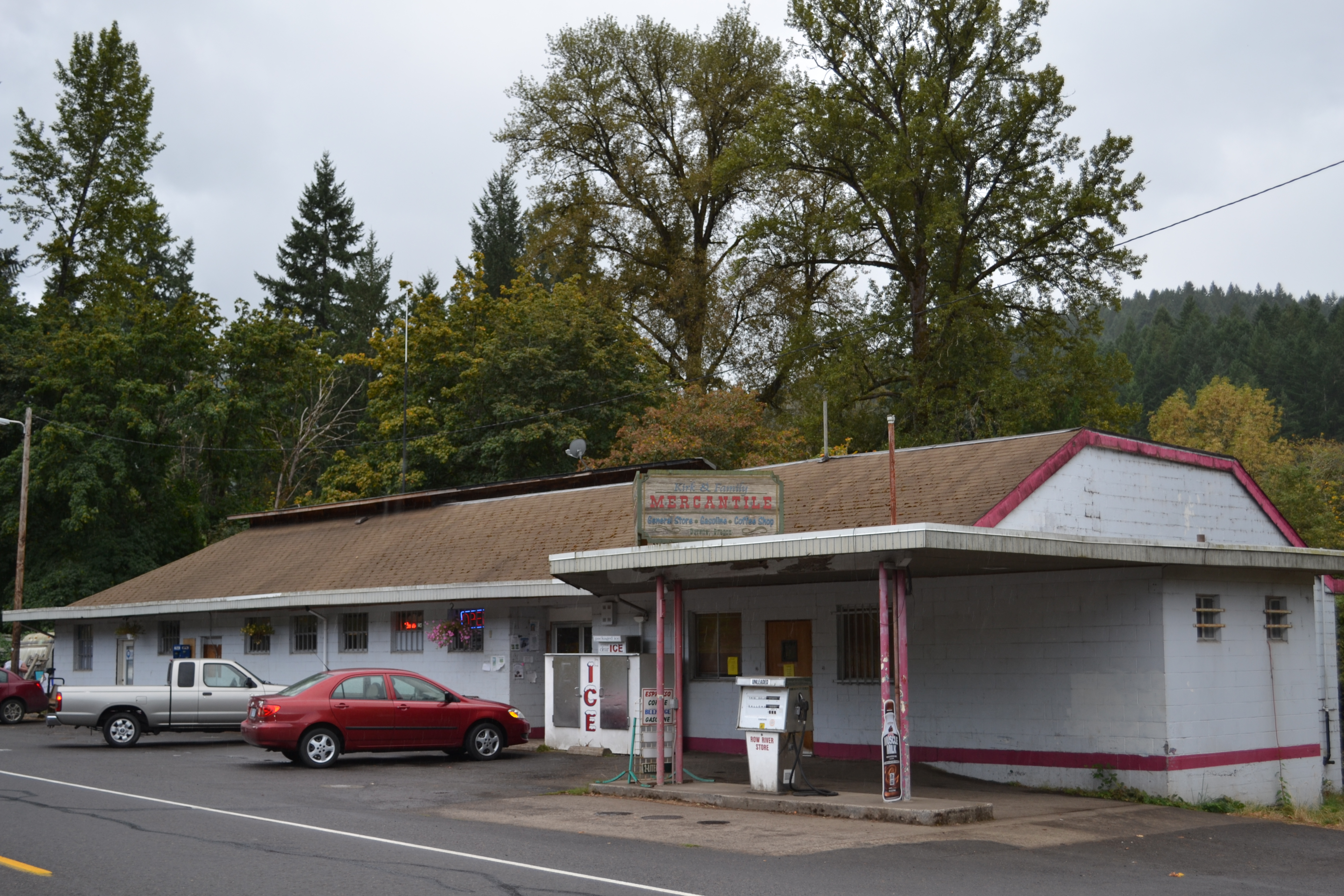 Kirk and Family Mercantile (Dorena, Oregon)